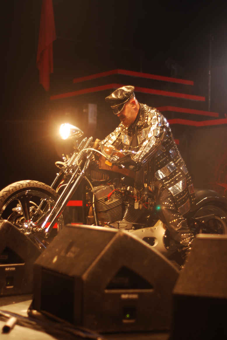 Rob Halford during a Judas Priest's concert